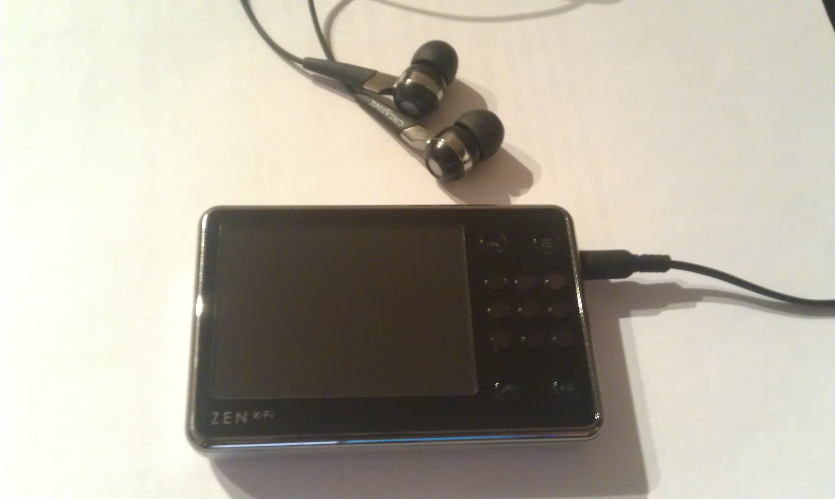 Zen mp3 player.